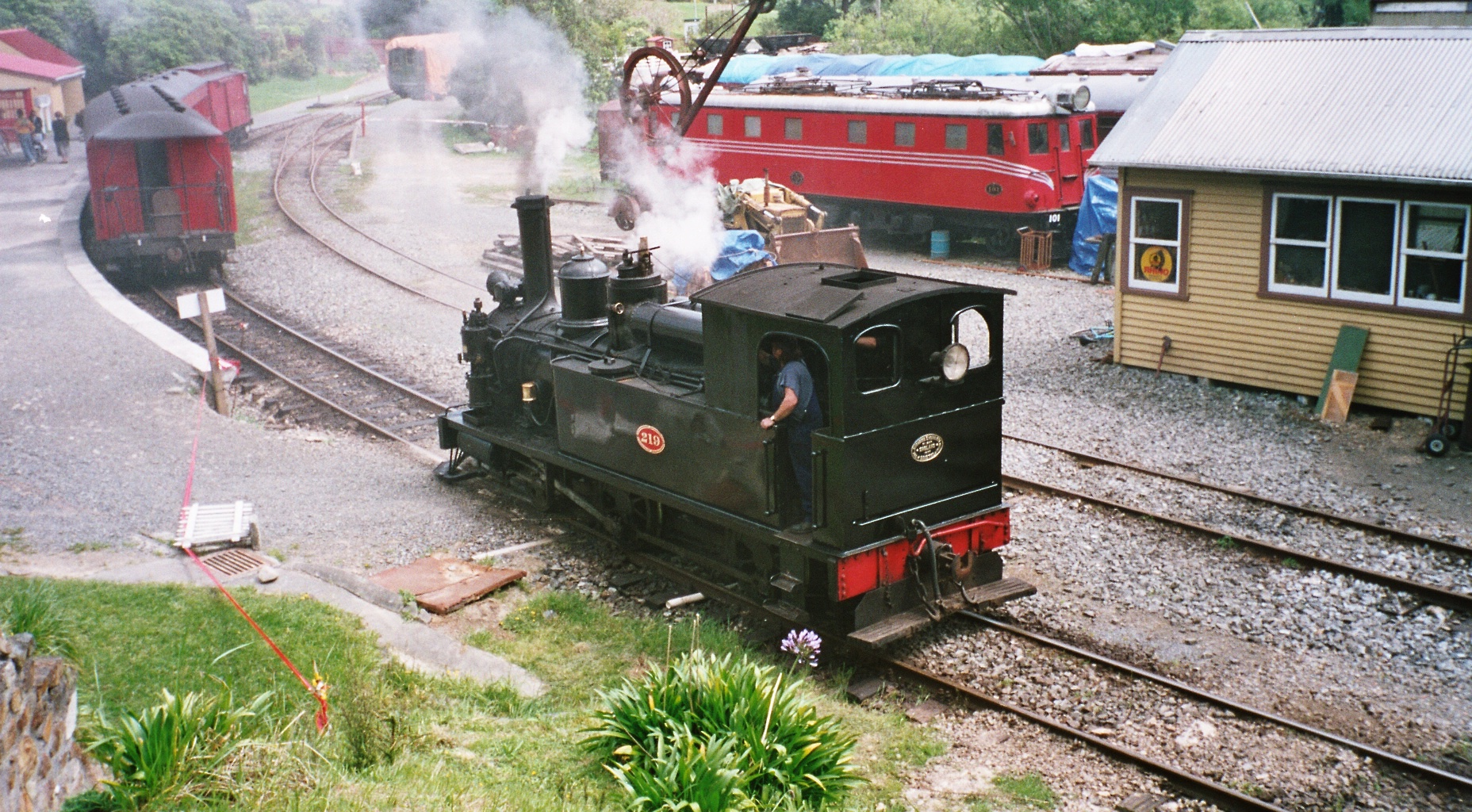 steam locomotive L509, silver stream railway, new zealand